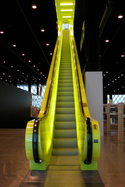 escalator at the Seattle Central Library